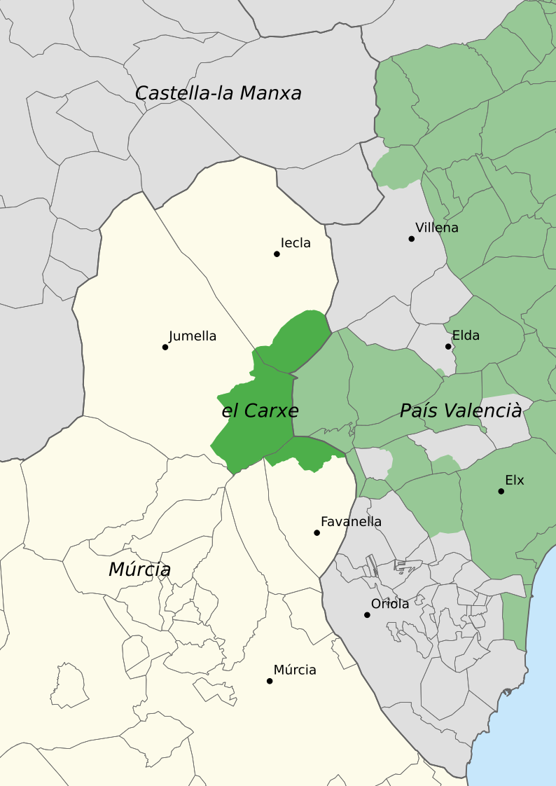 Localization of the Carxe (according to Toponímia del Carxe, of Esther Limorti) in the Region of Murcia.